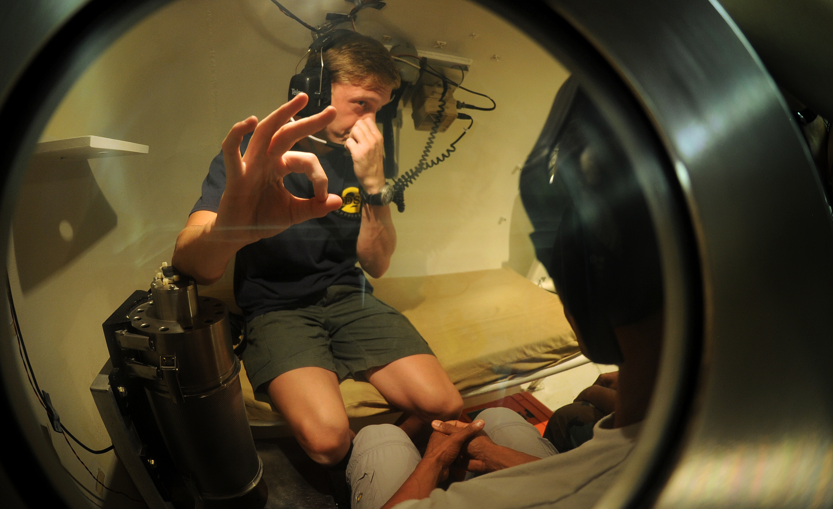 PANAMA CITY, Panama (Aug. 11, 2010) Navy Diver 2nd Class Matt Wilson, assigned to Mobile Diving and Salvage Unit (MDSU) 2, gives the signal to safety observers that all divers are Okay during re-compression chamber training aboard the Military Sealift Command rescue and salvage ship USNS Grasp (T-ARS 51). MDSU-2 is participating in Navy Diver-Southern Partnership Station (ND- SPS), a multinational partnership engagement designed to increase interoperability and partner nation capacity through diving operations. (U.S. Navy photo by Mass Communication Specialist 1st Class Jayme Pastoric/Released)